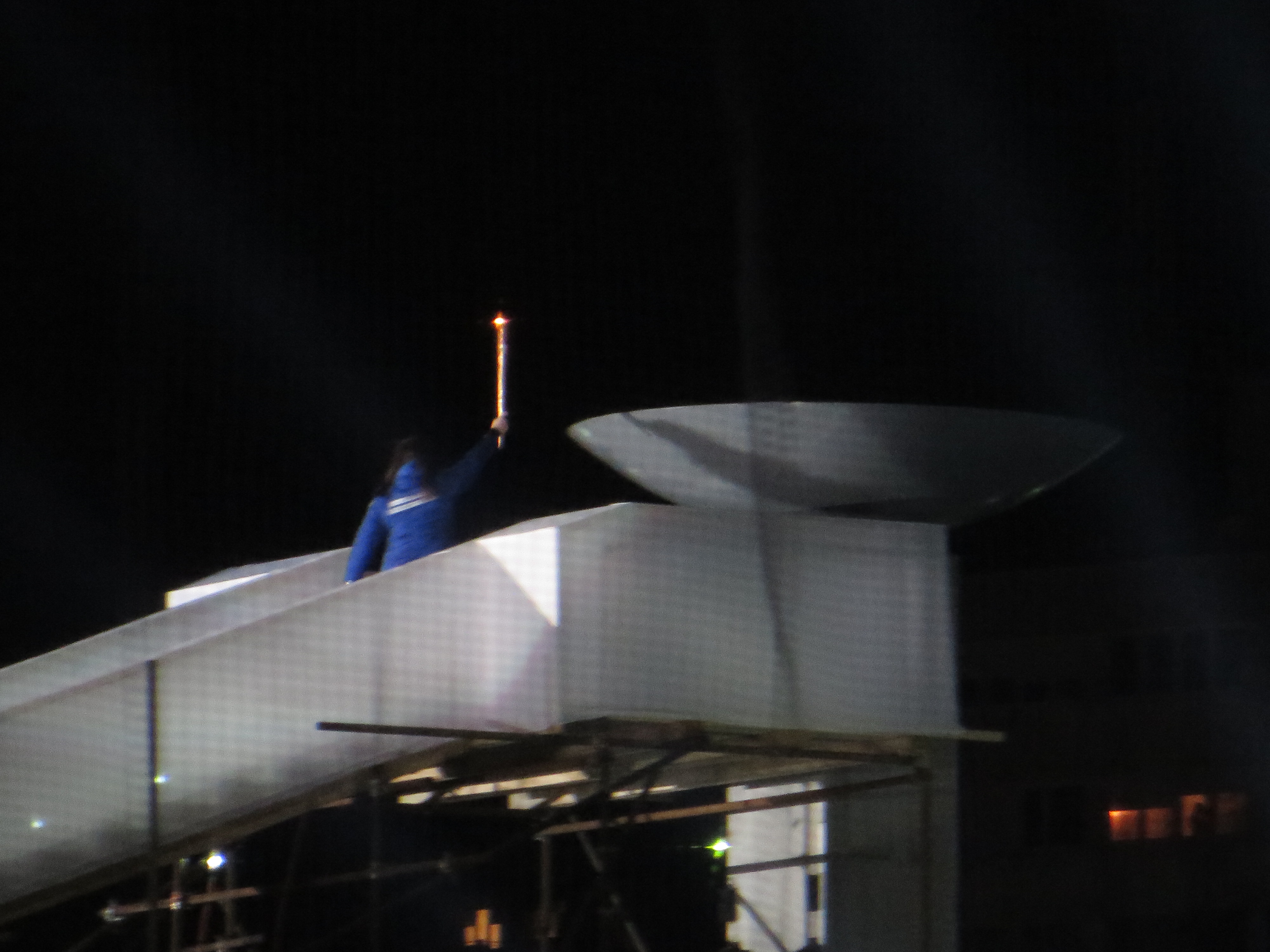 Opening ceremony of EYOF 2019 in Koševo Stadium in Sarajevo